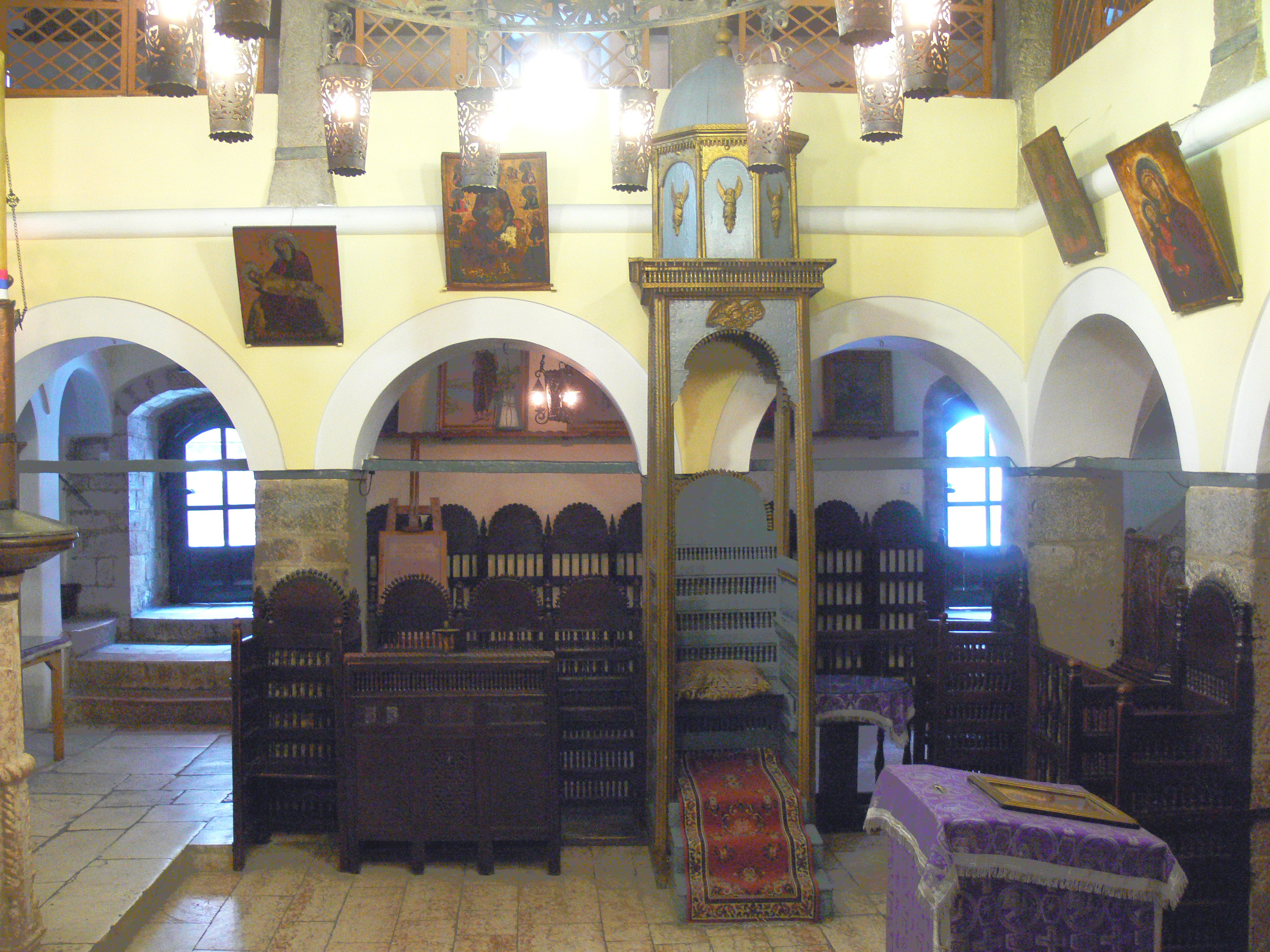 The old arthodox church in Sarajevo. The oldest sacral building in Sarajevo. Interior.